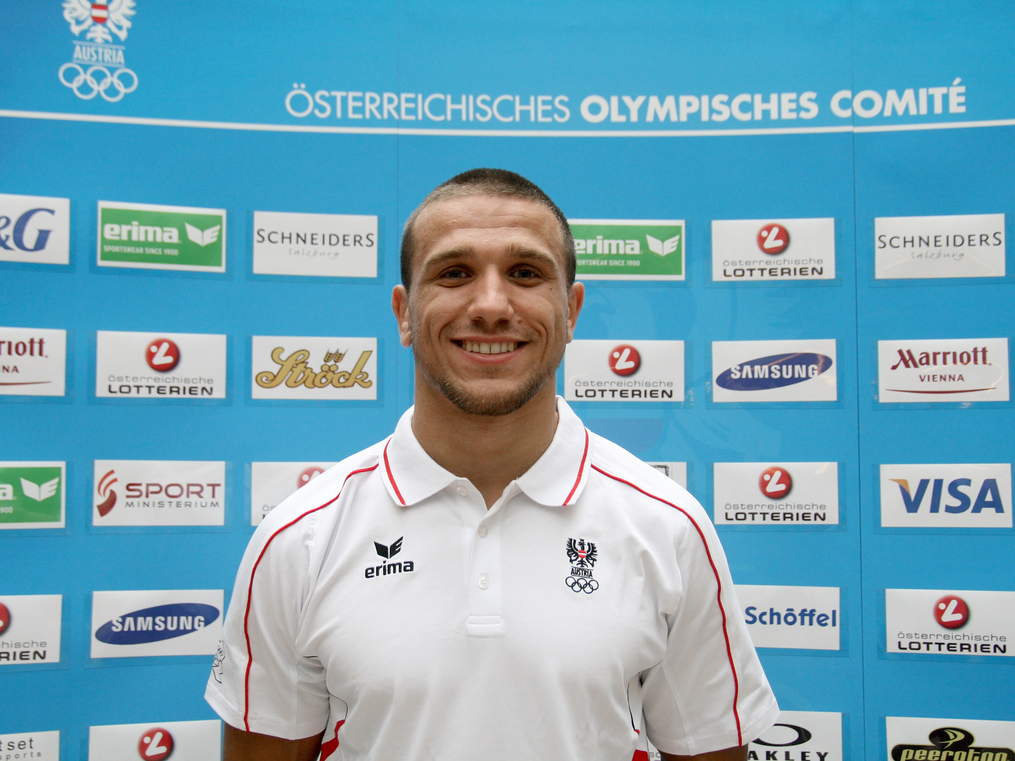 Wrestler Amer Hrustanovic at the hand-out of the Austrian teams official attire for the 2012 Summer Olympics in London (Marriott, Vienna).